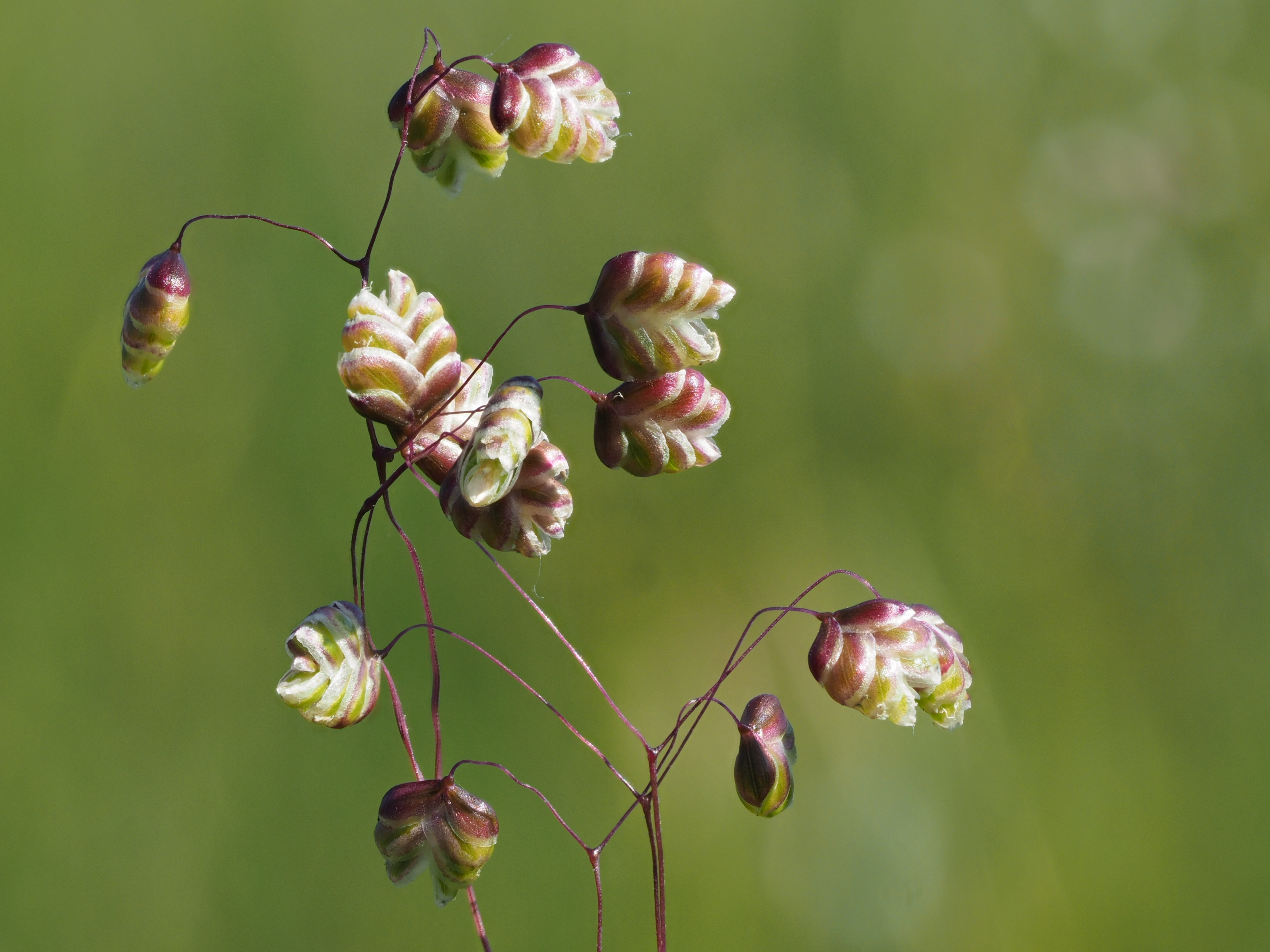 Briza media, Southern Heath Nature Park, German